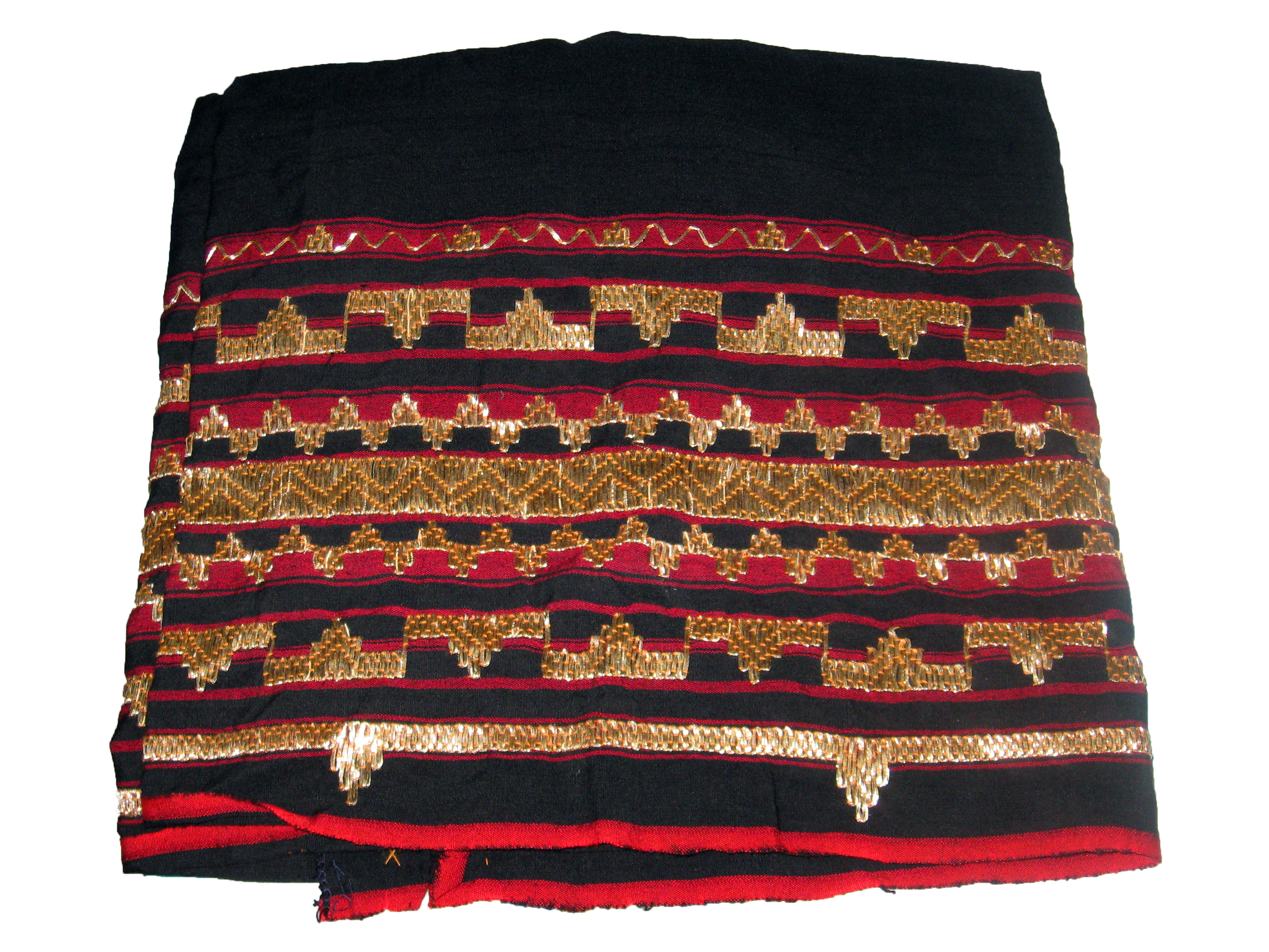 A black and red piece of cloth with tapis (gold embroidering) from Lampung, Indonesia.